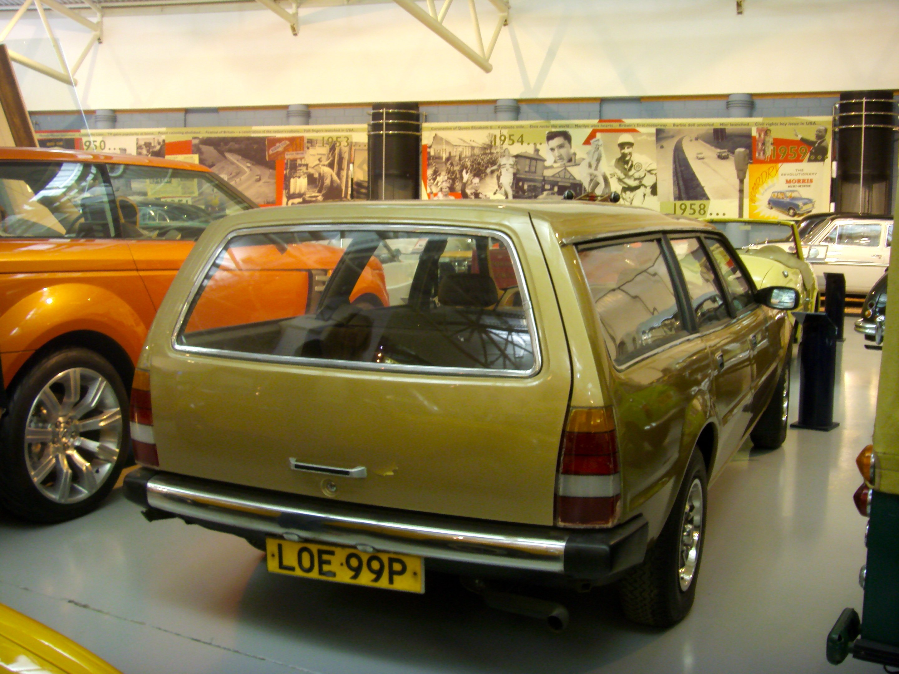 Used by Michael Edwards as his personal transport